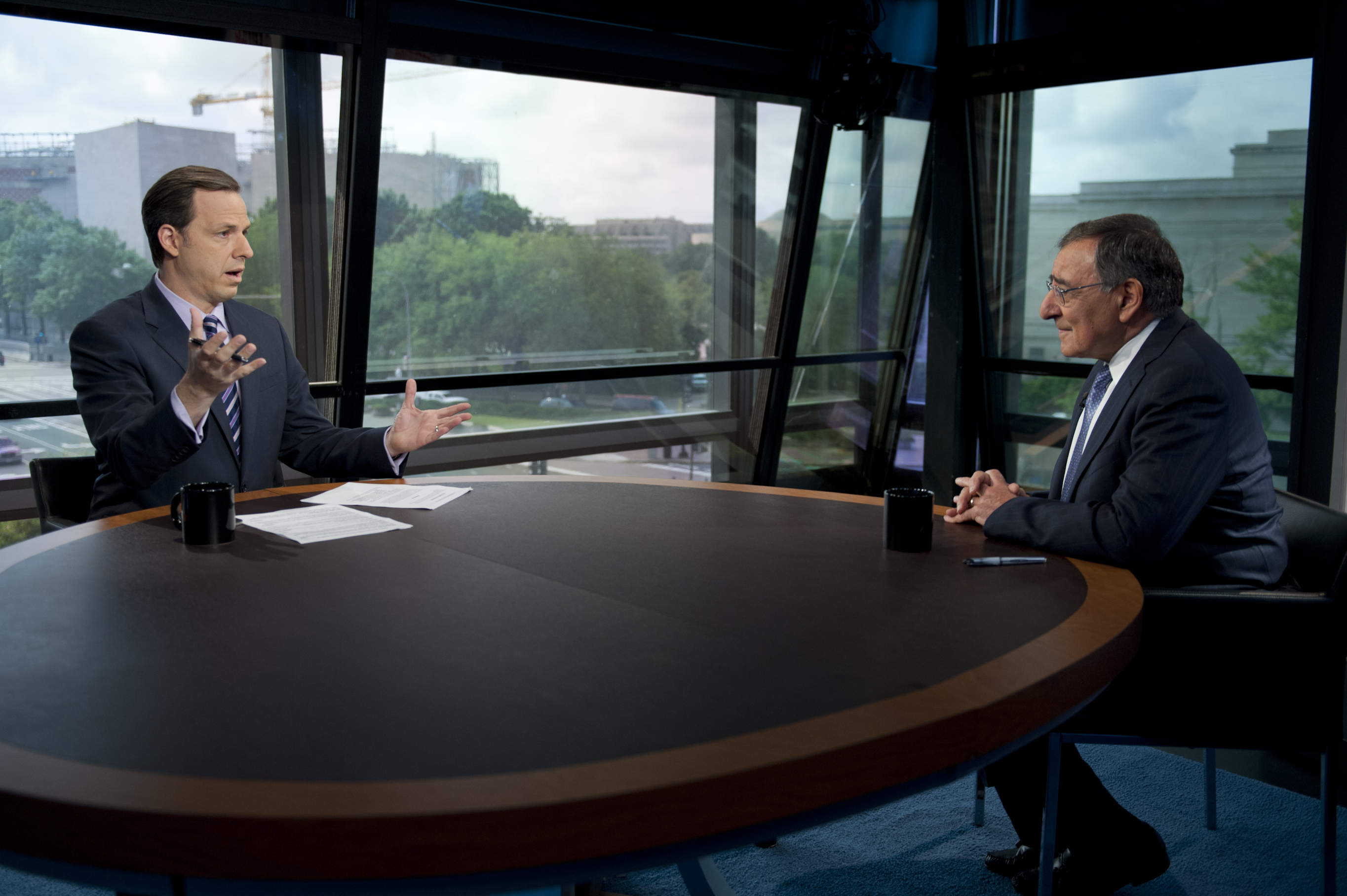 Secretary of Defense Leon E. Panetta is interviewed by ABC's This Week host Jake Tapper at the Newseum Washington, D.C., May 25, 2012. (DoD photo by Petty Officer 1st Class Chad J. McNeeley/Released)